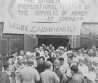 Preparatory Committee for National Construction (Chemulpo Branch)